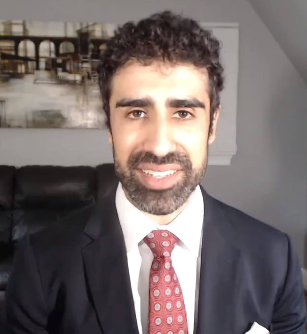 Tatiana interviews Arvin Vohra of the Vohra Method. - Arvin Vohra is the creator of the Vohra Method, and the founder of Arvin Vohra Education. His educational programs have transformed the lives of countless students, and he has inspired audiences nationwide through his speeches, books, and community outreach programs. His books include The Equation for Excellence: How to Make Your Child Excel at Math, and Lies, Damned Lies, and College Admissions. If you like this content, please send a tip with BTC to: 1444meJi7YjgQGNg3U8Z6qYZFA5cgz4Gmj